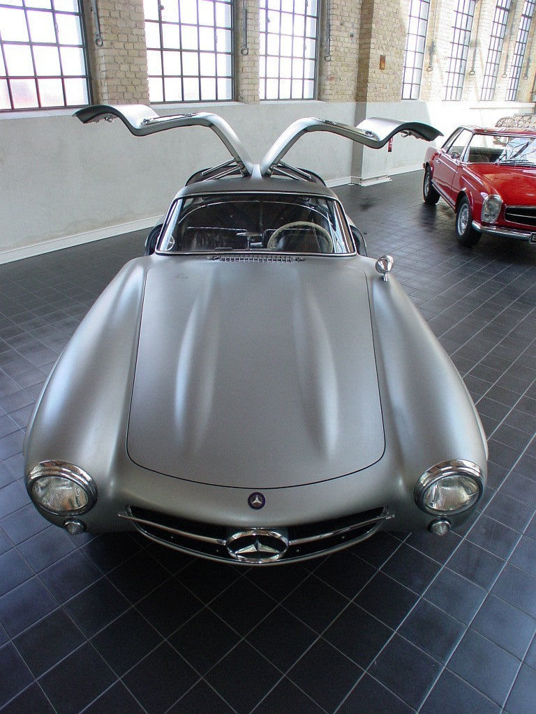 Mercedes 300SL Gullwing, photograph by Jason Vanderhill, Berlin, 2004.